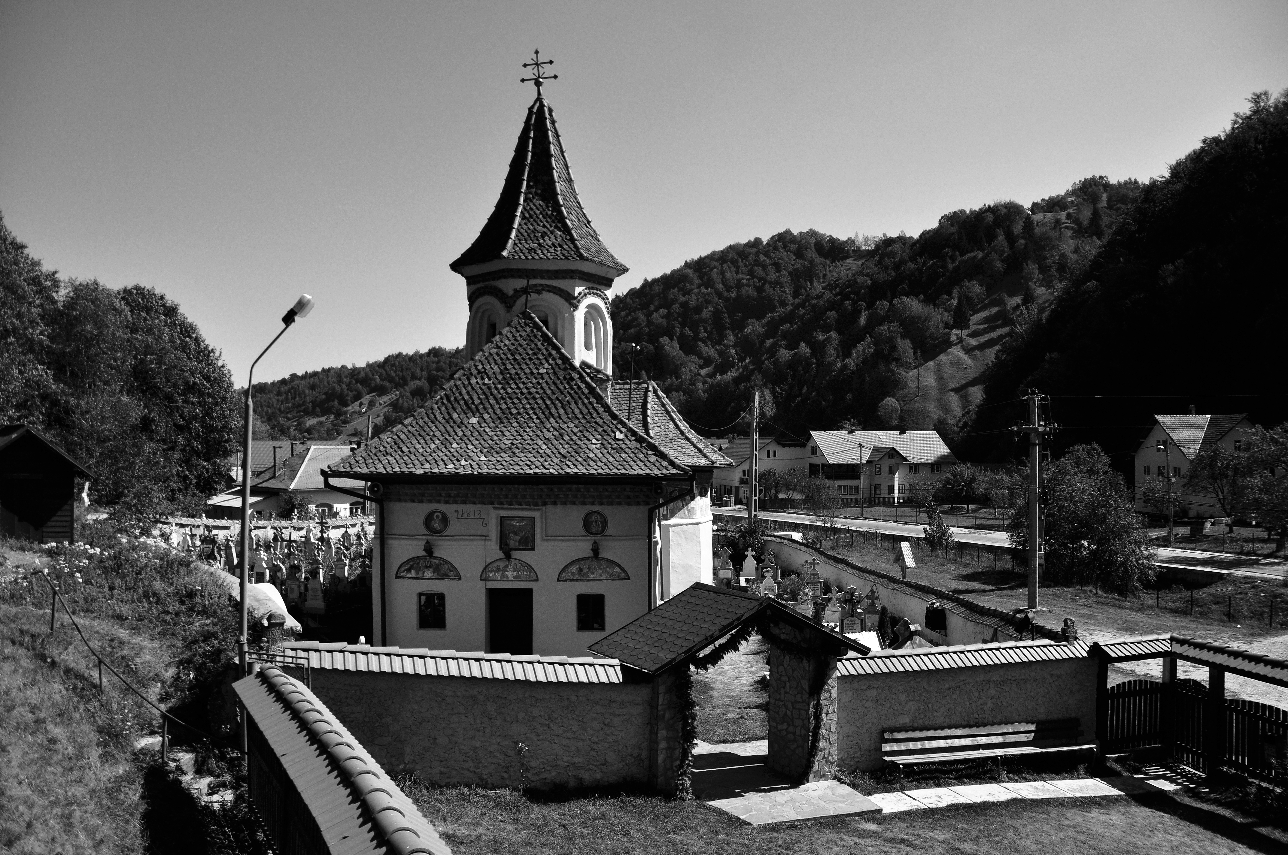 "Dormition of the Theotokos" Church from 1813 in Cheia village, Brasov district, Transylvania